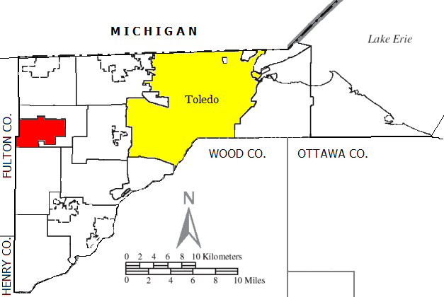 Made by the US Census and modified by myself